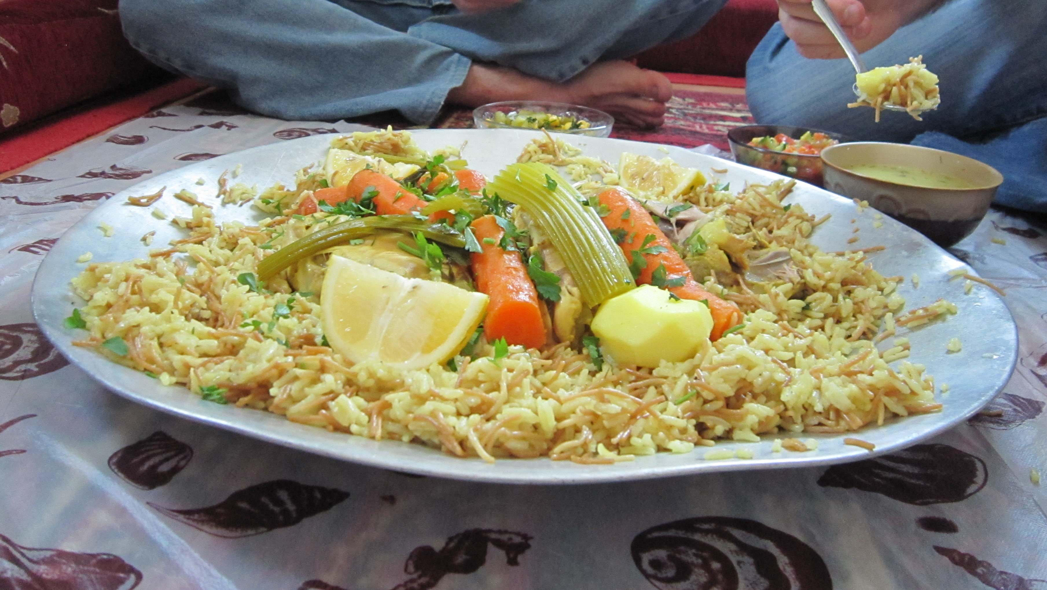 Traditional Bedouin meal